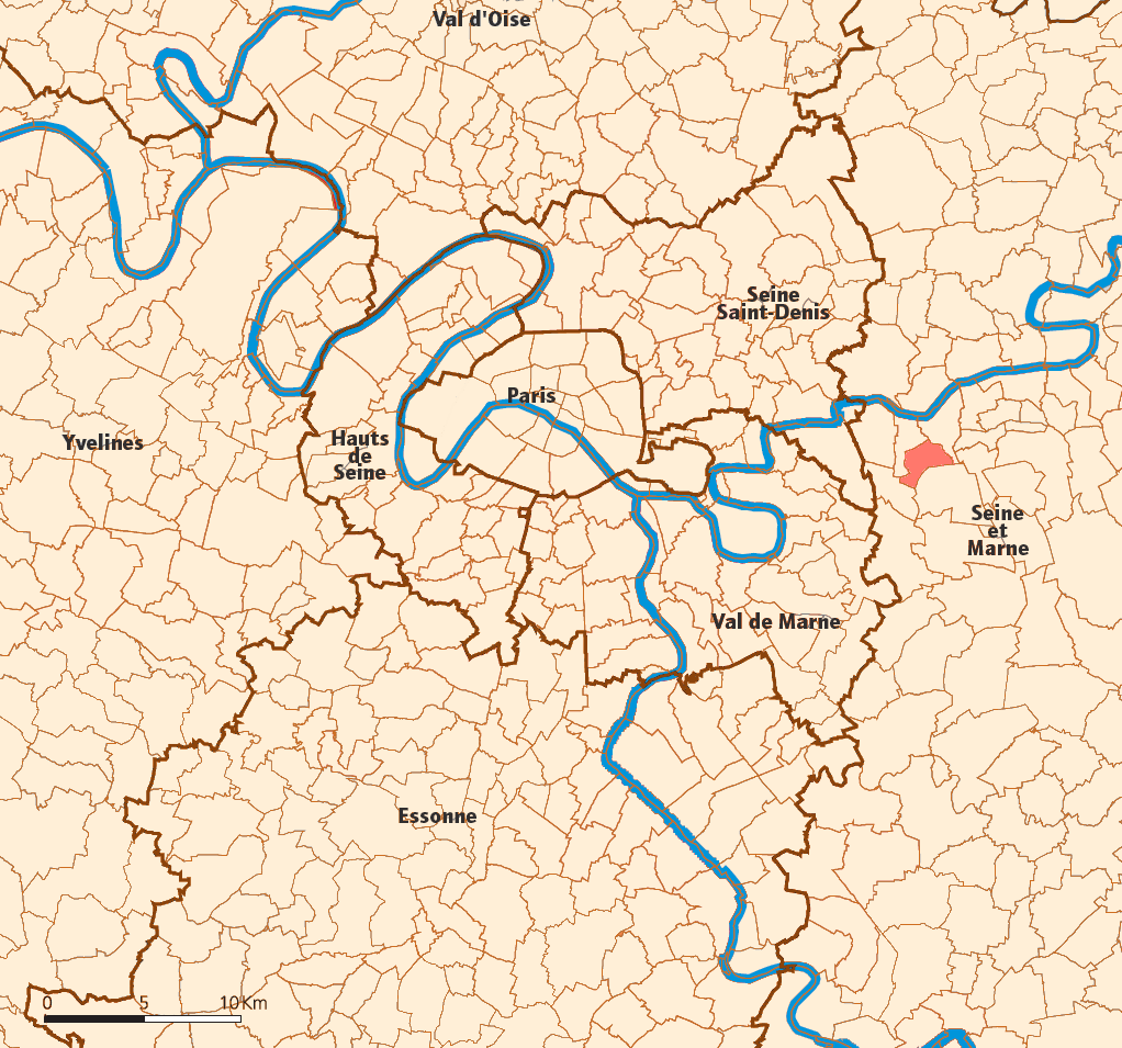 Created map myself.